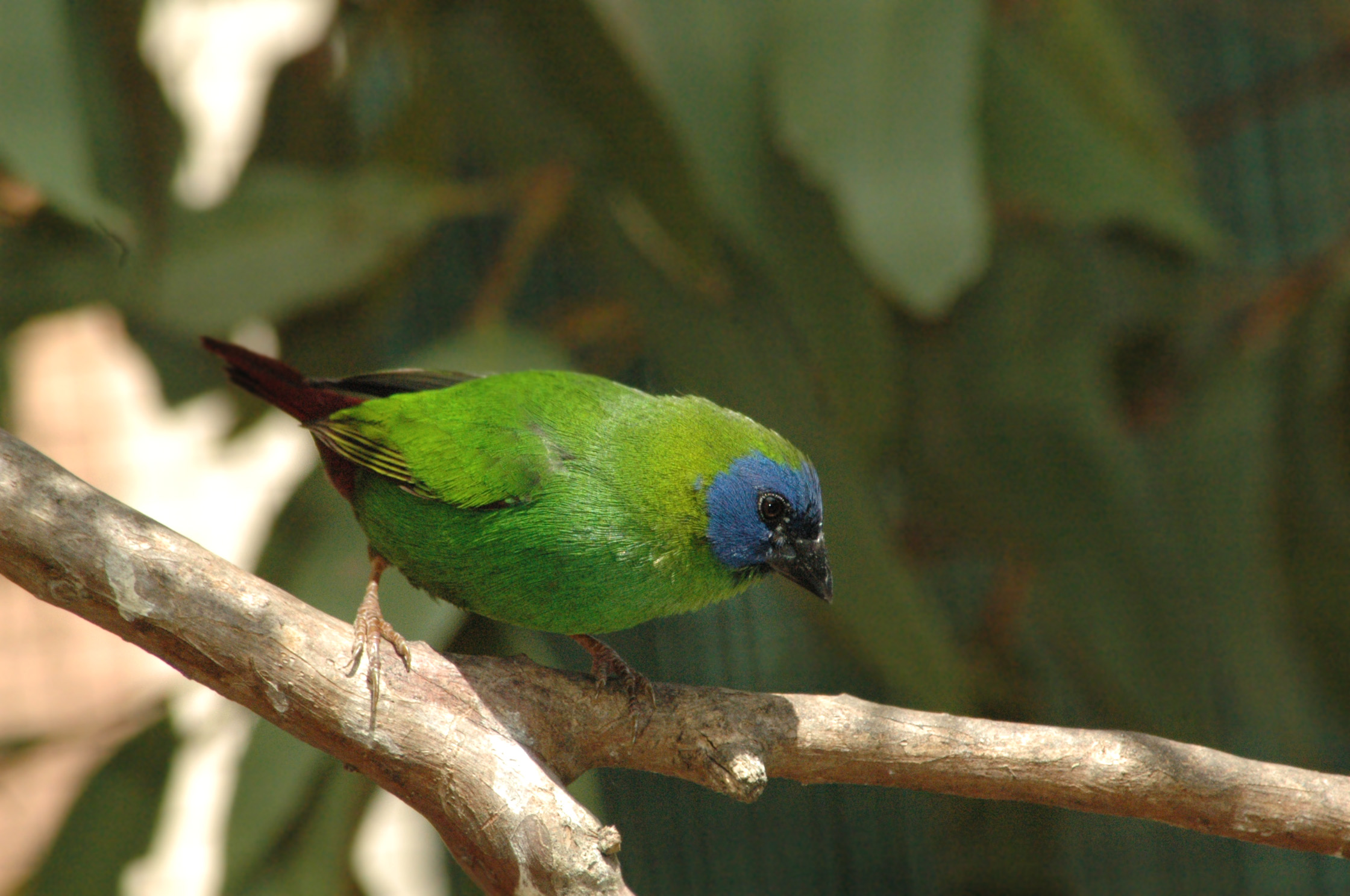 A Blue-faced Parrotfinch from my aviary.